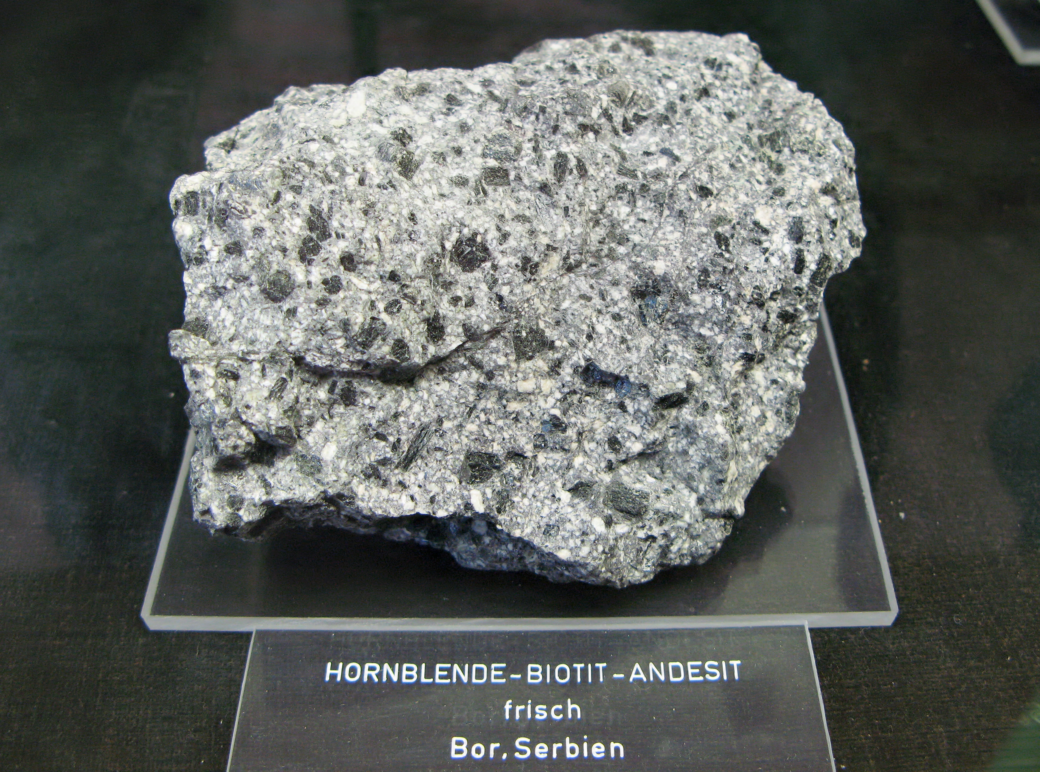 Hornblende-biotite andesite, from Bor, Serbia, displayed in the Mineralogical Museum, Bonn, Germany.